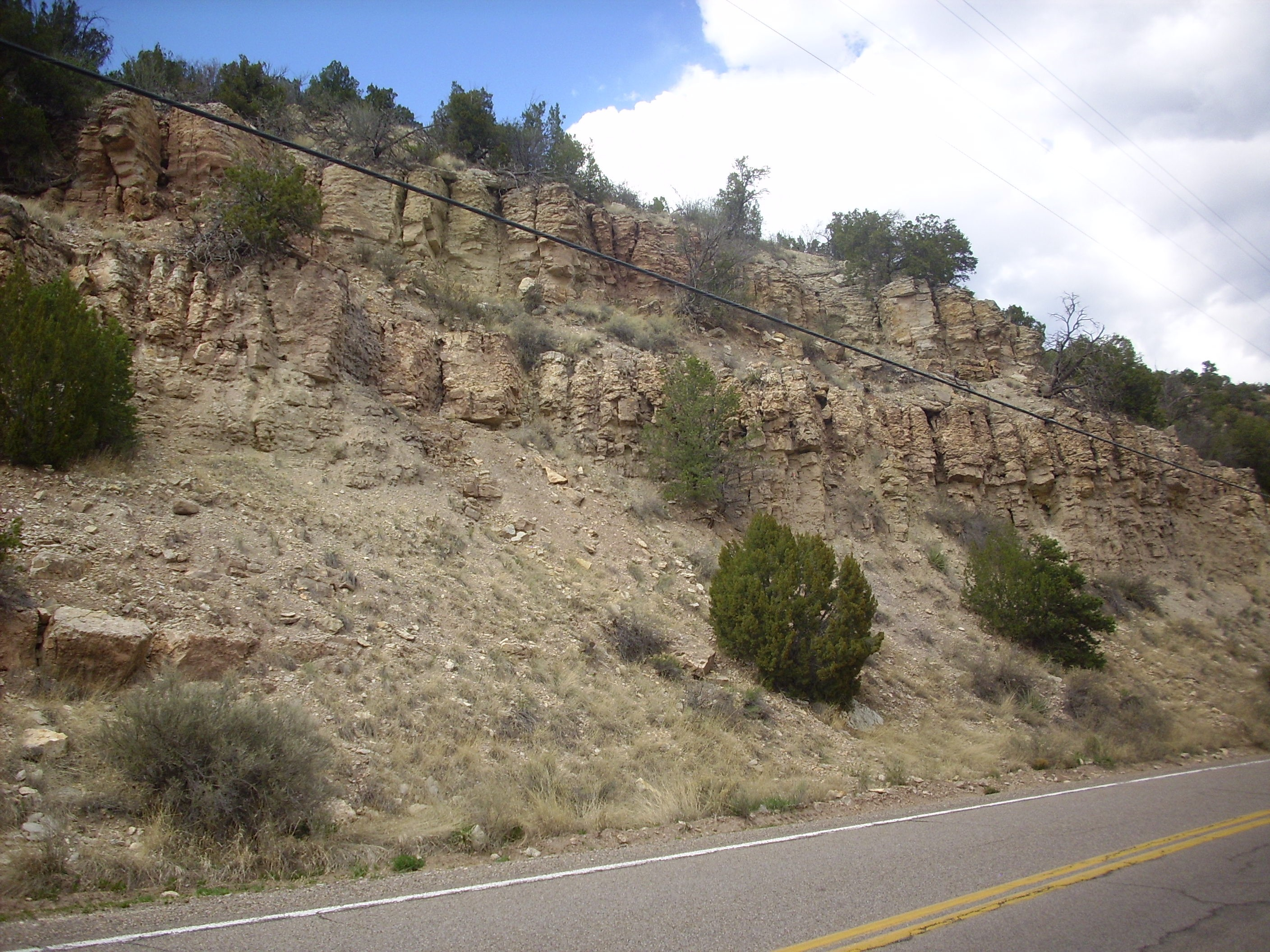 This image shows outcrops of the Atrasado Formation of the Madera Group north of Jemez Springs, New Mexico, USA. The Atrasado is an arkosic limestone of Pennsylvanian age that includes extensive shallow marine fossil beds in this area.